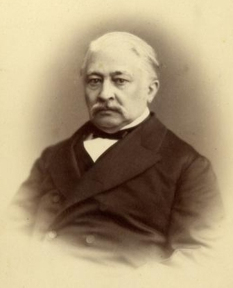 Andrey Kraevskiy.